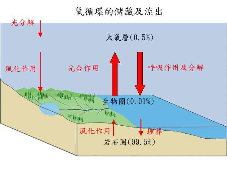 氧循環中文版 Chinese Version of Oxygen cycle